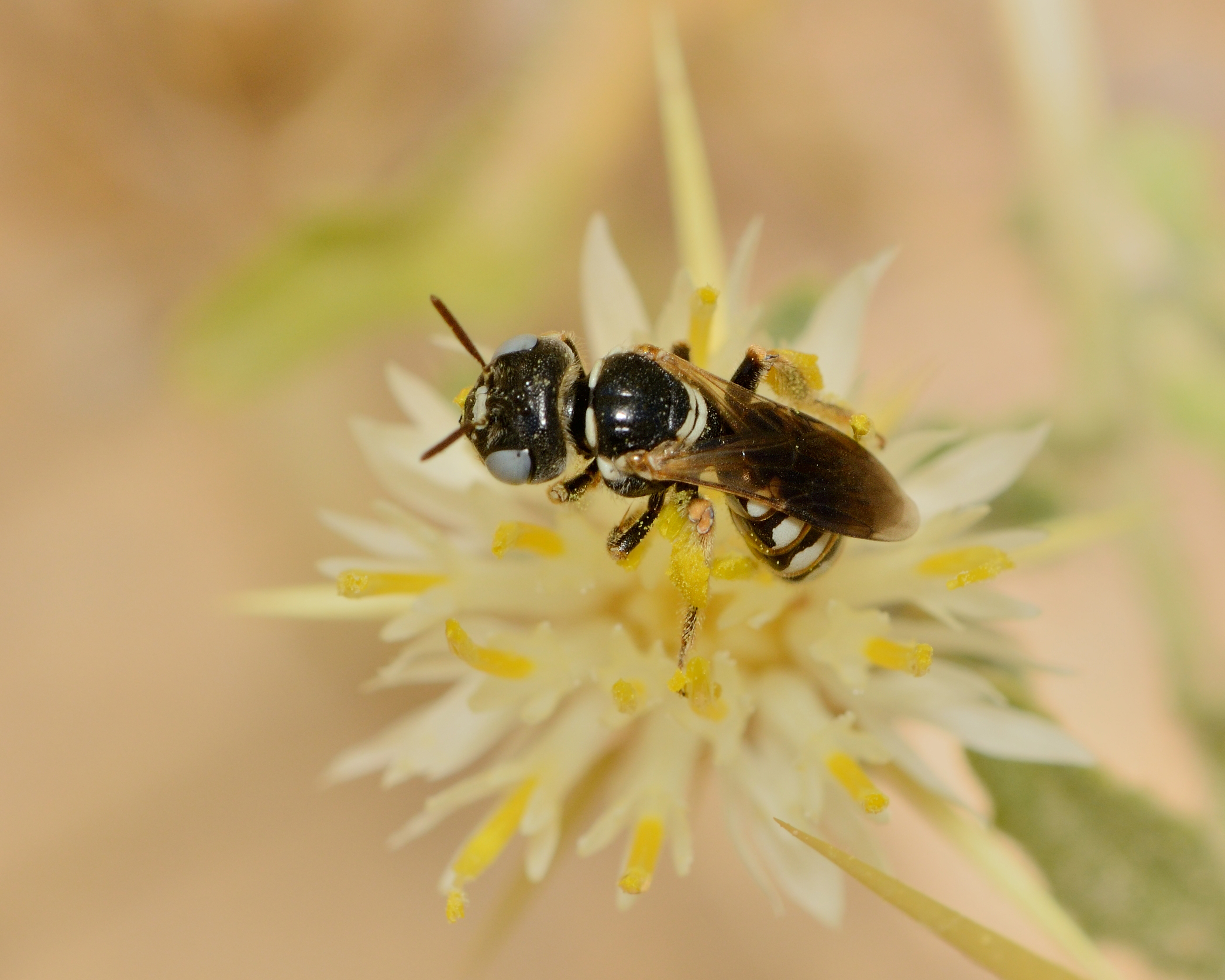 Camptopoeum frontale (Fabricius, 1804), female foraging on Centaurea sp., Negev, Israel, April 24, 2013.